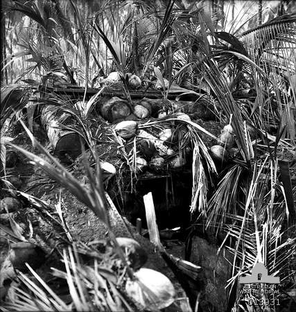 A Japanese machine gun nest in the Buna area. This camouflaged machine gun nest has been badly damaged by shellfire from a tank. Buna area, Papua, New Guinea. 1942-12-28. (Photographer: George Silk).